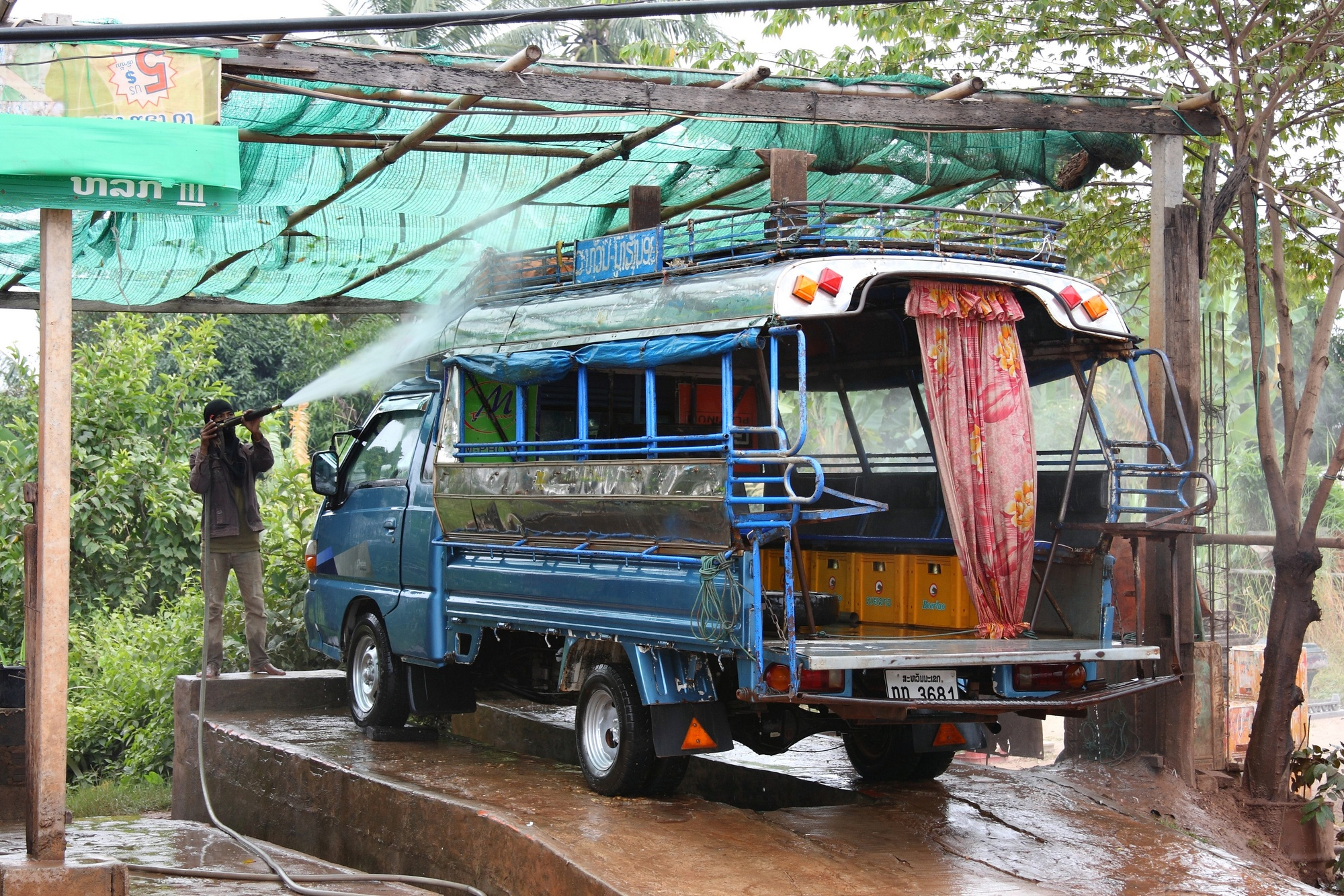 Songthaew being washed in Savannakhet, Laos (Hyundai Porter)